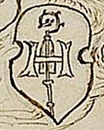 Wappen Kloster Heilsbruck, Edenkoben